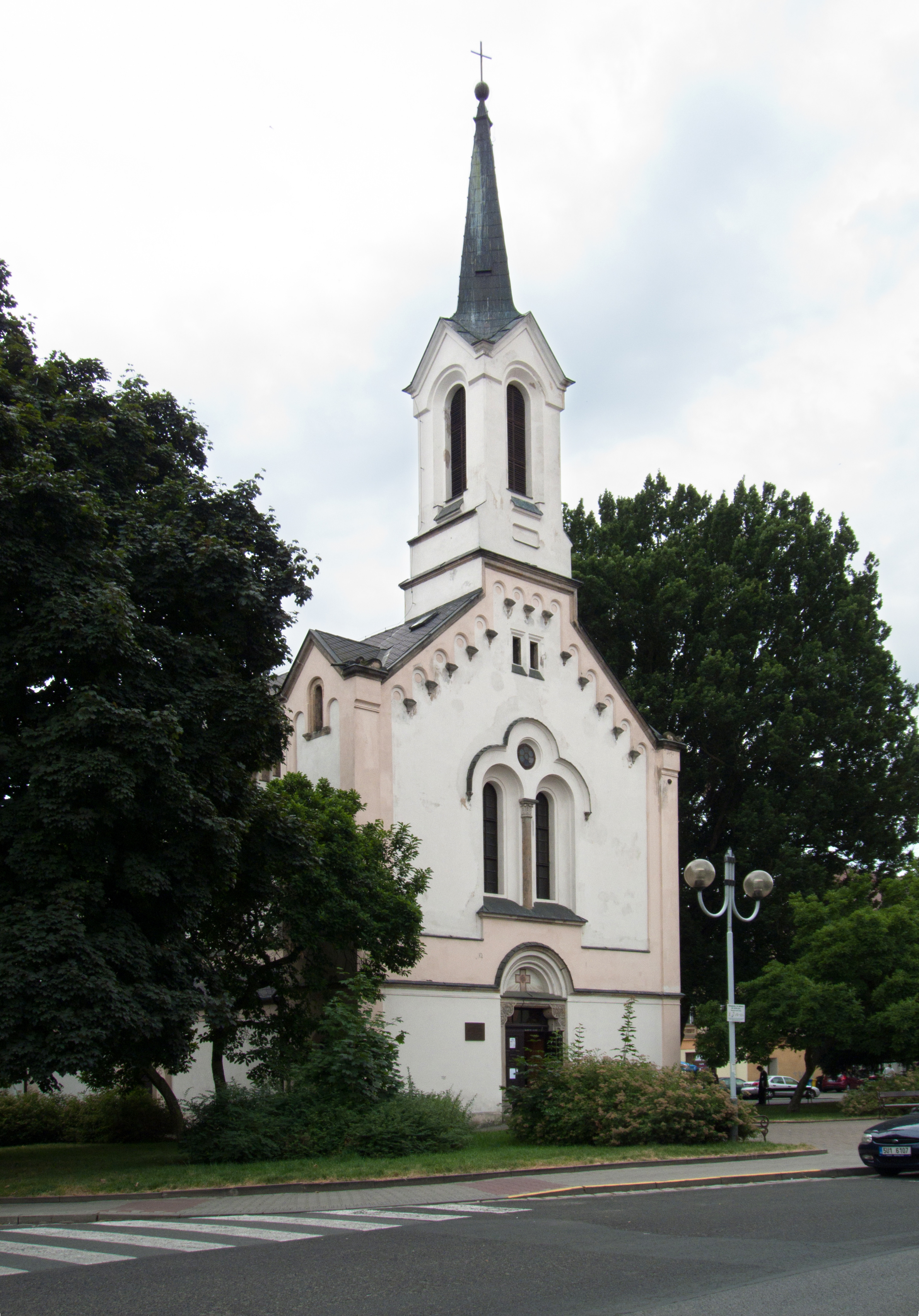 Saint Francis Church in Husovo Square, Děčín, Czech Republic